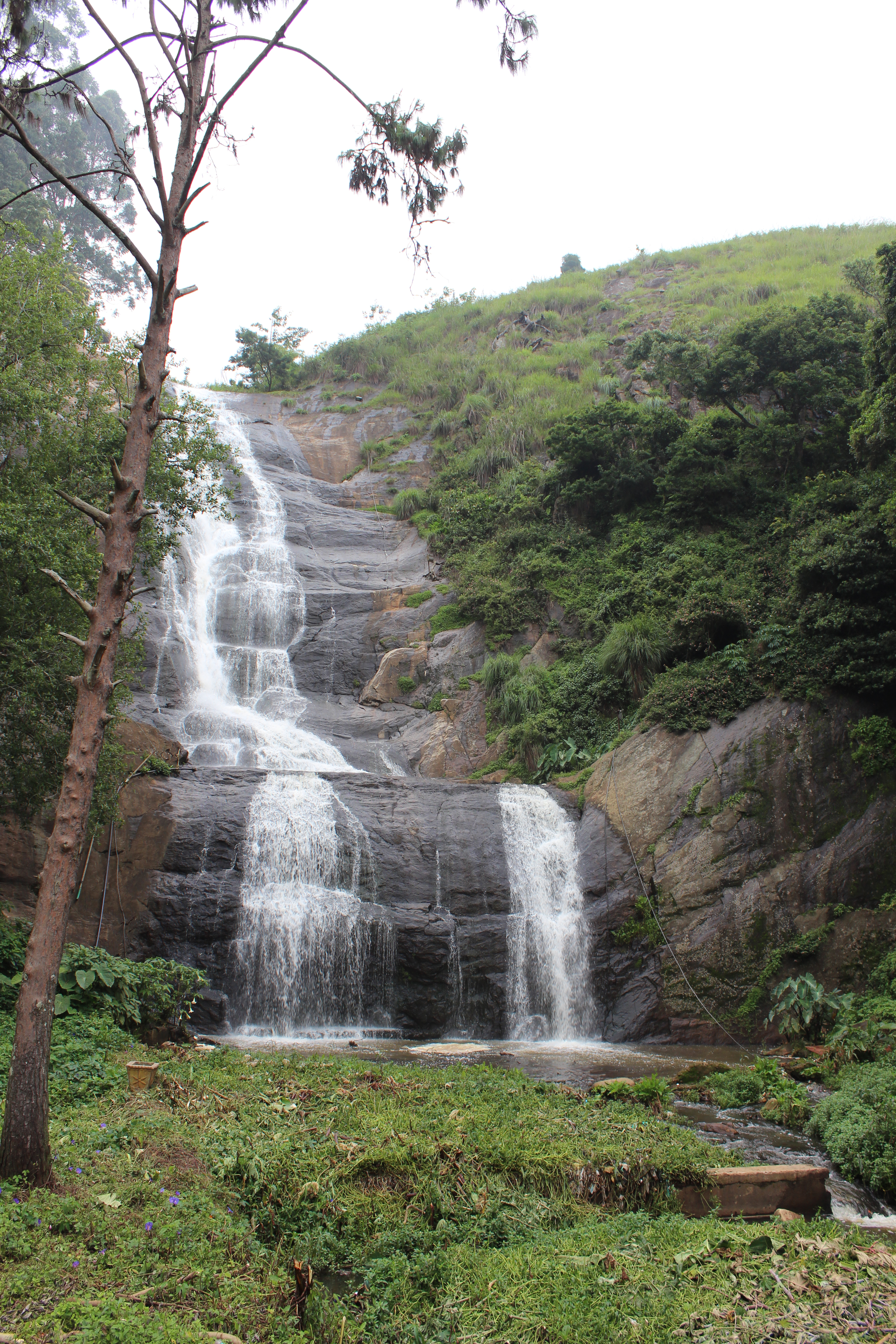 Silver Cascade Falls in Kodaikana